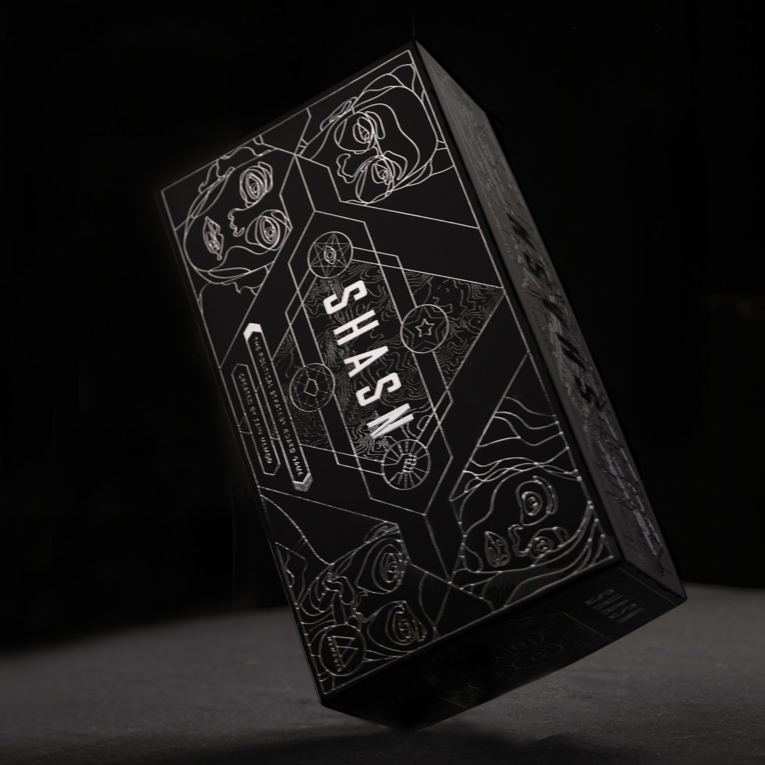 Shasn is a board game developed by Memesys Culture Lab